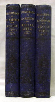 First edition copies of pictured books